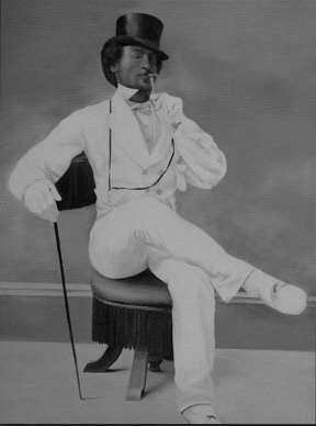 Ioane Ukeke.